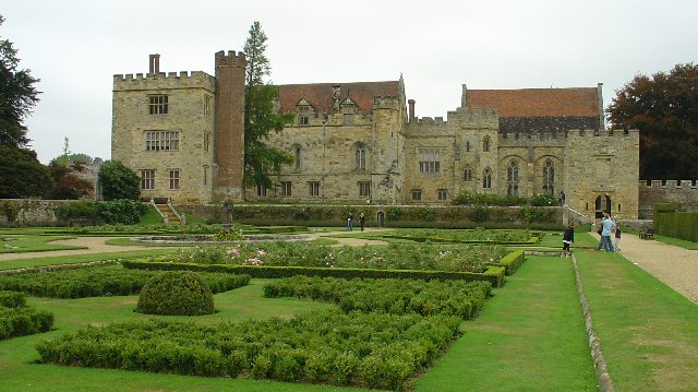 Penshurst Place, Tonbridge, Kent. The S front of this 14th century house with the Italian Garden in the foreground. Home of the Sidney family since 1552. A bronze statue of a youth is in the centre of the parterre, to be seen just below the circular red-brick tower.